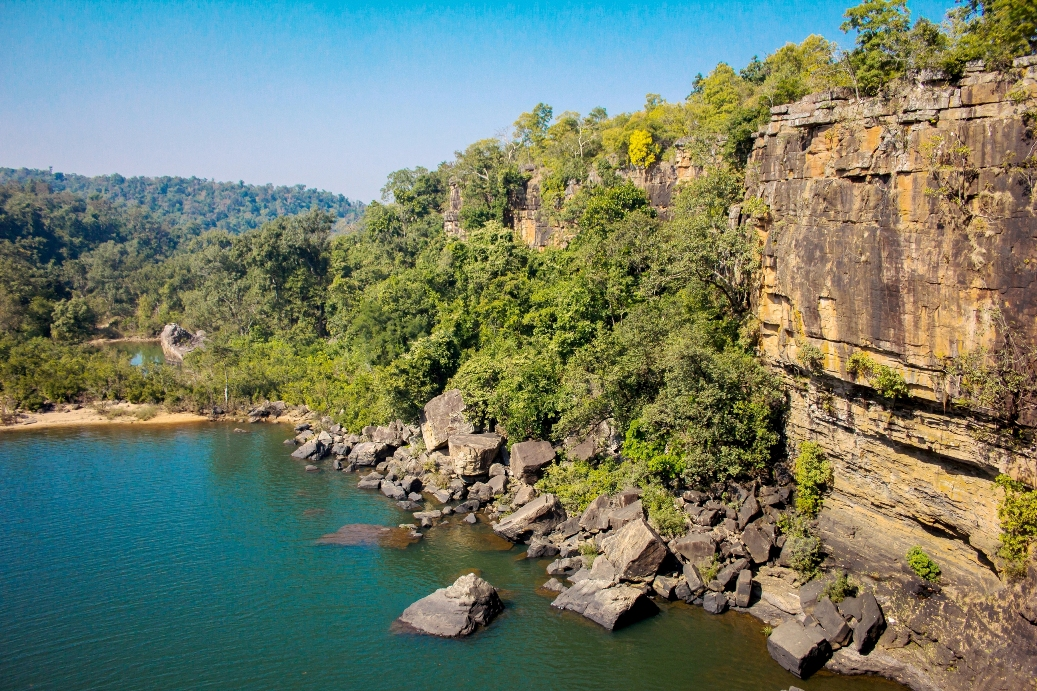 Steep cliffs are a common sight in Sunabeda wildlife Sanctuar